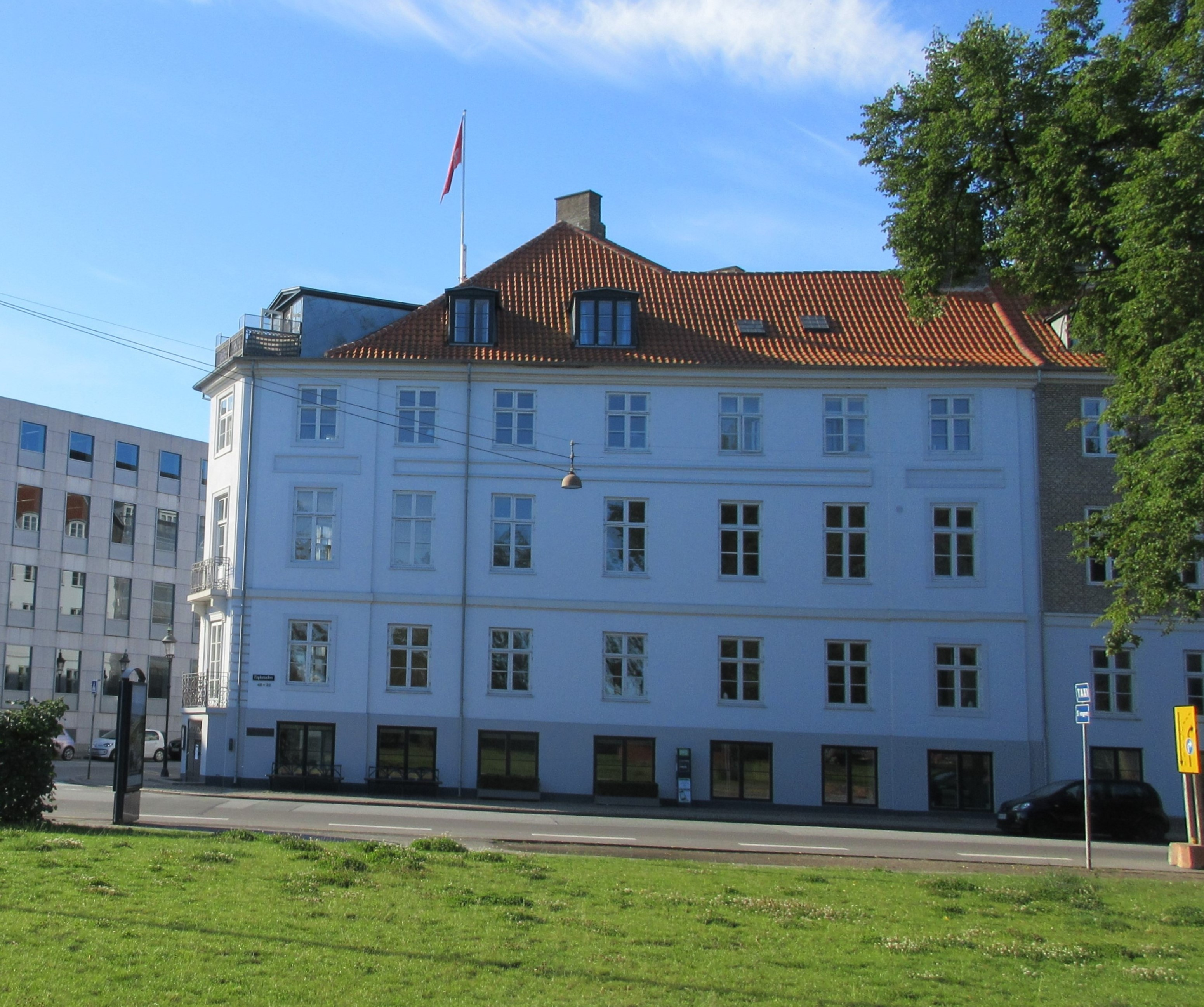 The building formerly known as Toldbodbørsen at Amaliegade 49 / Esplanaden 48 in Copenhagen, Denmark. Designed by Andreas Hallander and built in 1788.